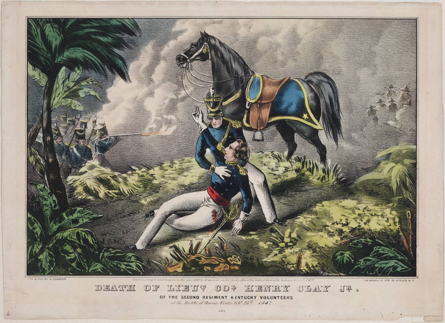 "Death of Lieut. Col. Henry Clay Jr.," lithograph by N. Currier, 152 Nassau Street (corner of Spruce), New York, New York. Courtesy of the Beinecke Rare Book & Manuscript Library, Yale University.[1]